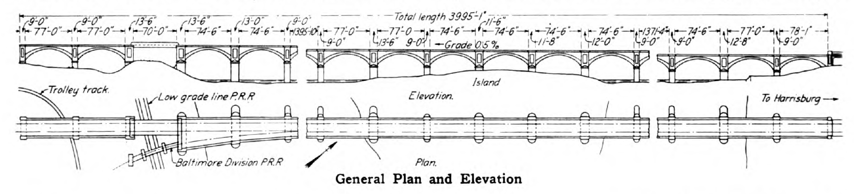 General Elevation and Plan of Cumberland Valley Railroad Bridge